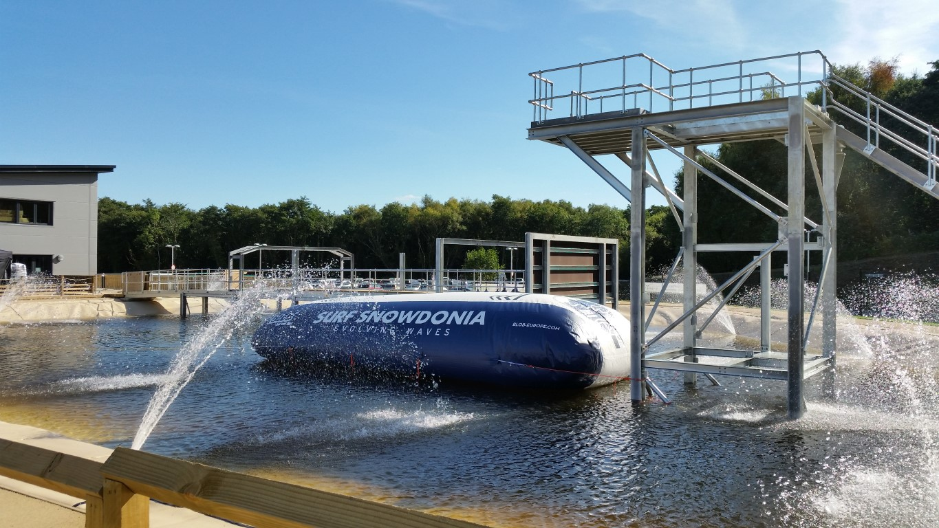 The Crash and Splash Lagoon at Surf SNowdonia